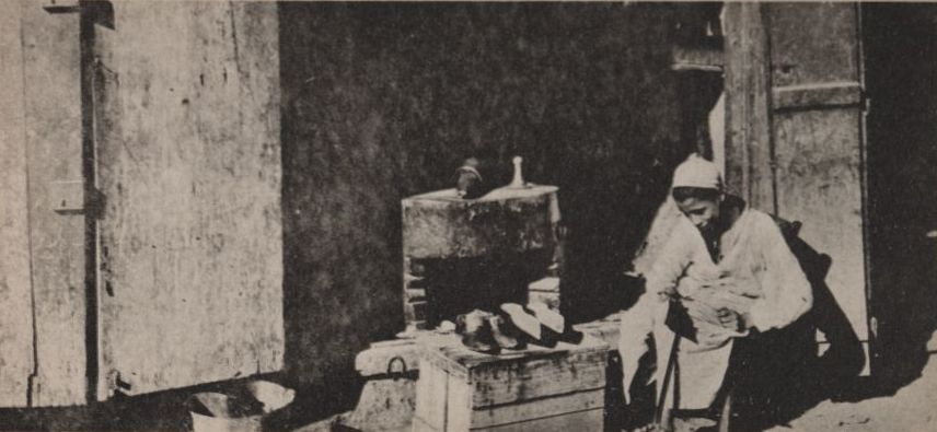 Man sitting, making and mending shoes